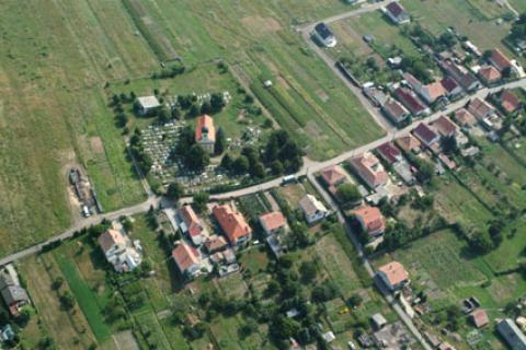 Pilisszentlászló, Hungary, aerialphotography